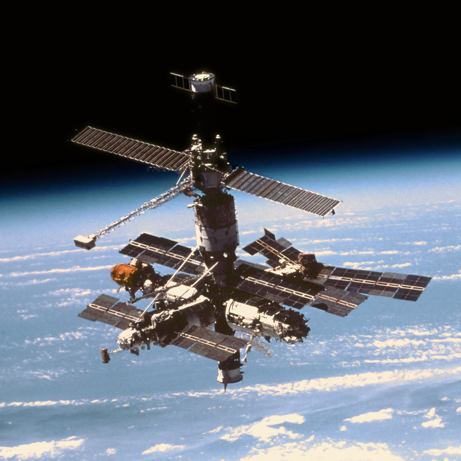 A view of the newly-completed Soviet/Russian space station Mir, shown over the limb of the Earth, as seen from the Space Shuttle Atlantis following undocking during STS-79.